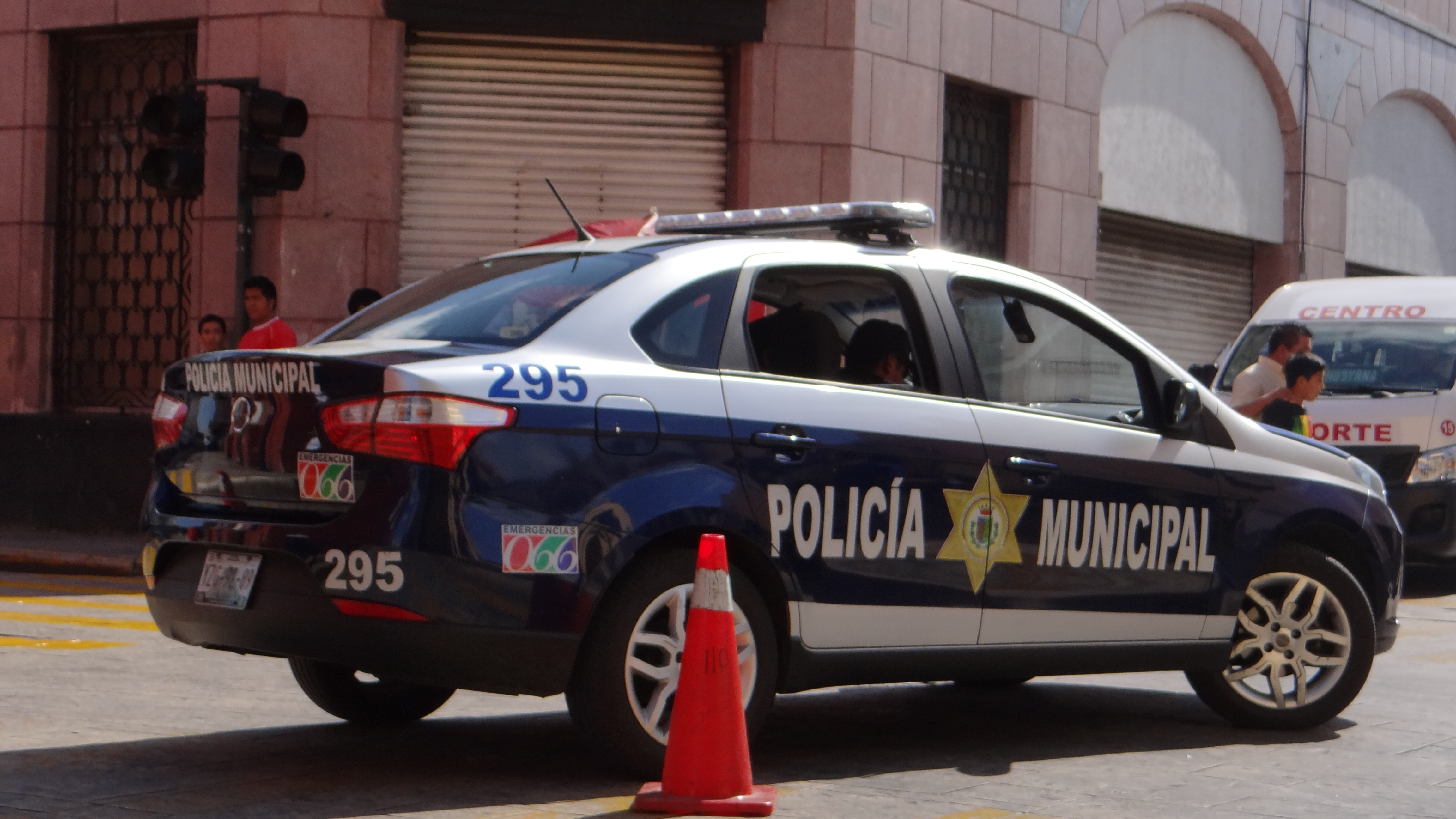 Mérida Tourist Police Dodge Vision